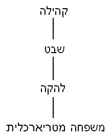 The orca's social structure - hebrew. I created it on 22.03.2007.